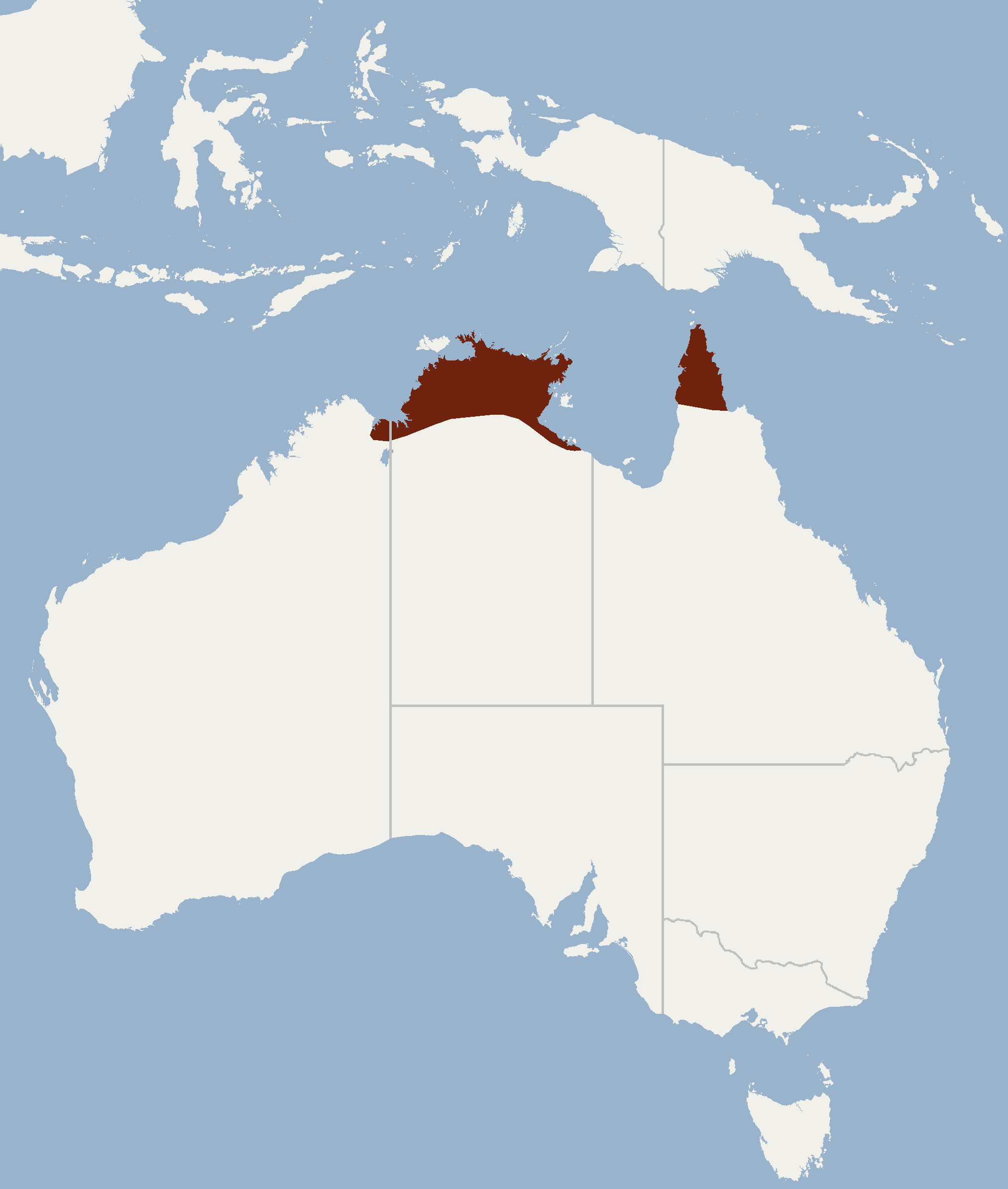 According to Menkhorst & Knight, 2001